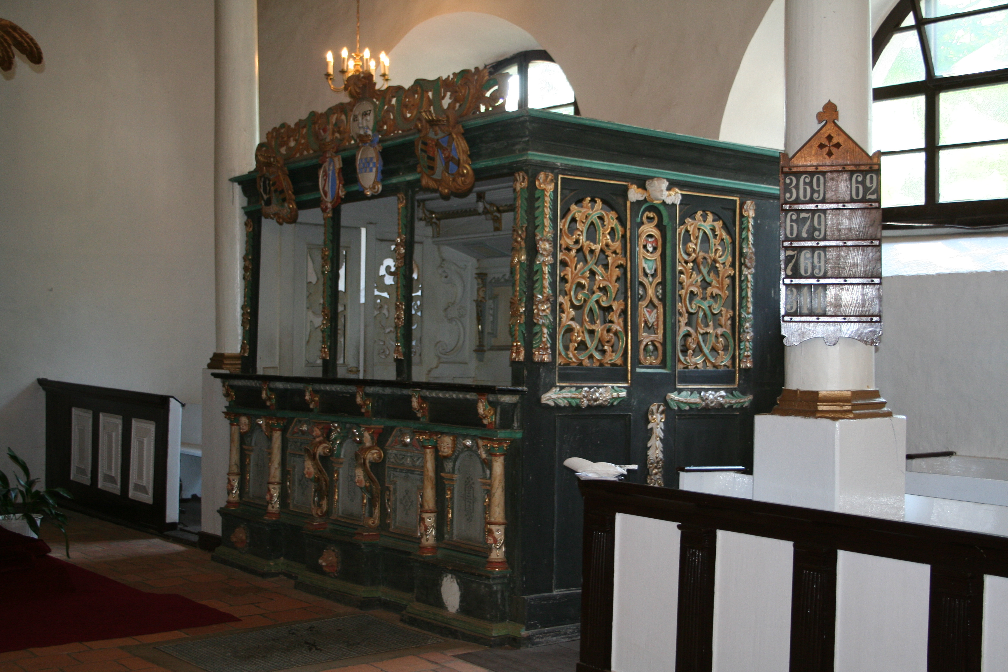 Lutheran Church in Sorkwity